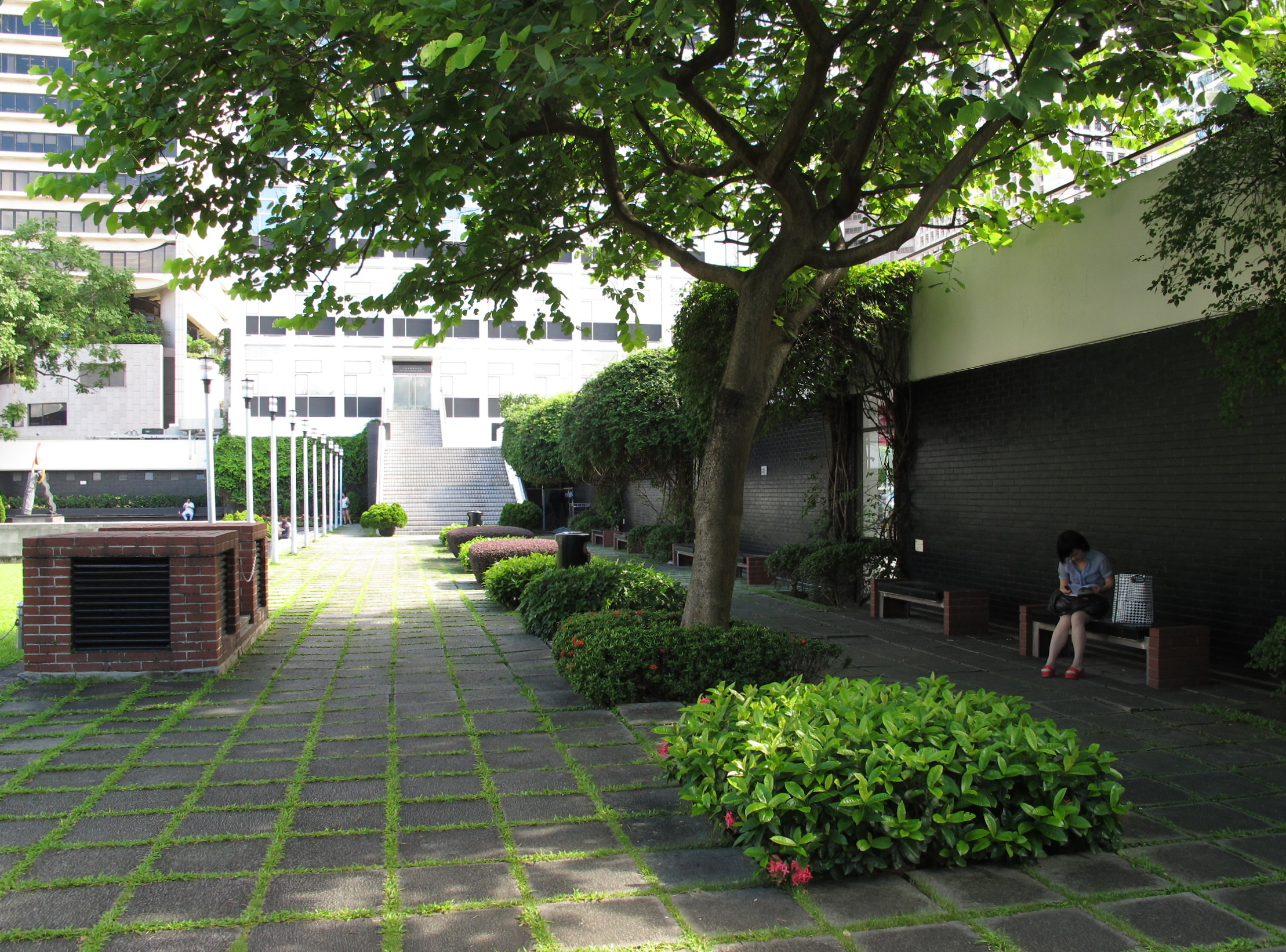 The City Hall Memorial Garden